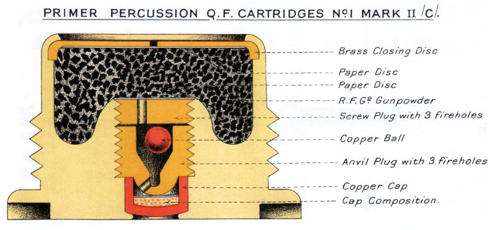 Diagram of British Percussion Primer No I Mk II, for QF cartridges. Dimensions : Approximately 36 mm at widest point; 29 mm at narrowest point; height approximately 22.6 mm. Used with cartridges for the following guns : QF 12 pounder 4 cwt QF 13 pounder QF 18 pounder QF 3 inch 20 cwt QF 4 inch Mk IV QF 4 inch Mk V QF 4.5 inch howitzer